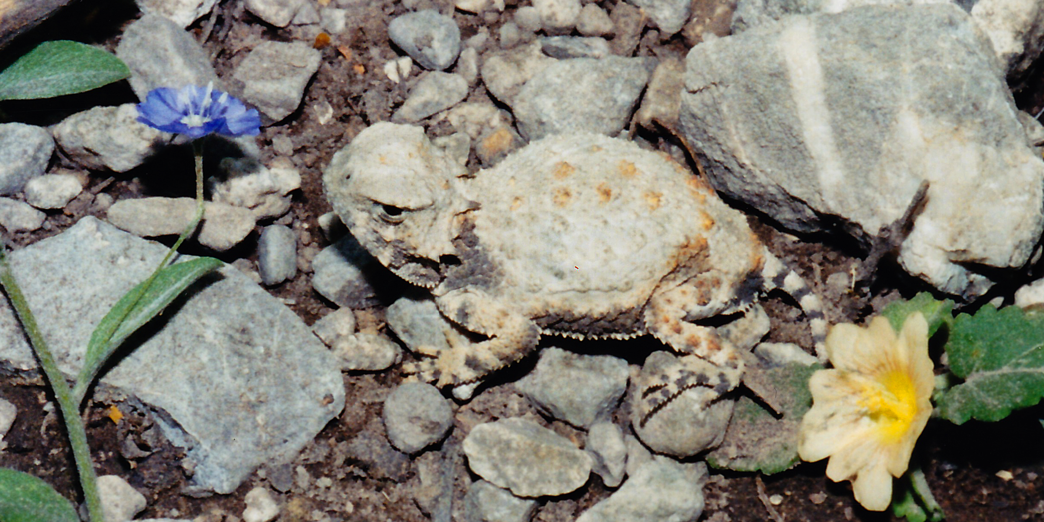 Roundtail Horned Lizard (Phrynosoma modestum), a sub-adult from the Municipality of Tula, Tamaulipas, Mexico. This lizard was photographed in the field on the natural rocks and soils where it was found, on 15 August 2004 by William L. Farr. This image was shot on film and later scanned and digitalized from a print.